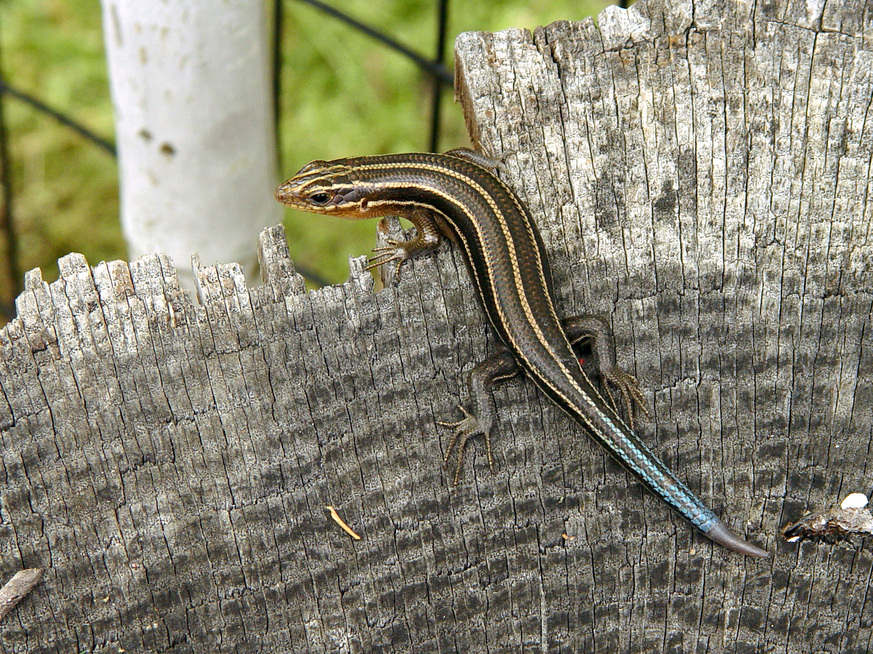 Eumeces fasciatus (Five-lined Skink) that has lost part of its tail, here pictured in Memphis, Tennessee, USA.